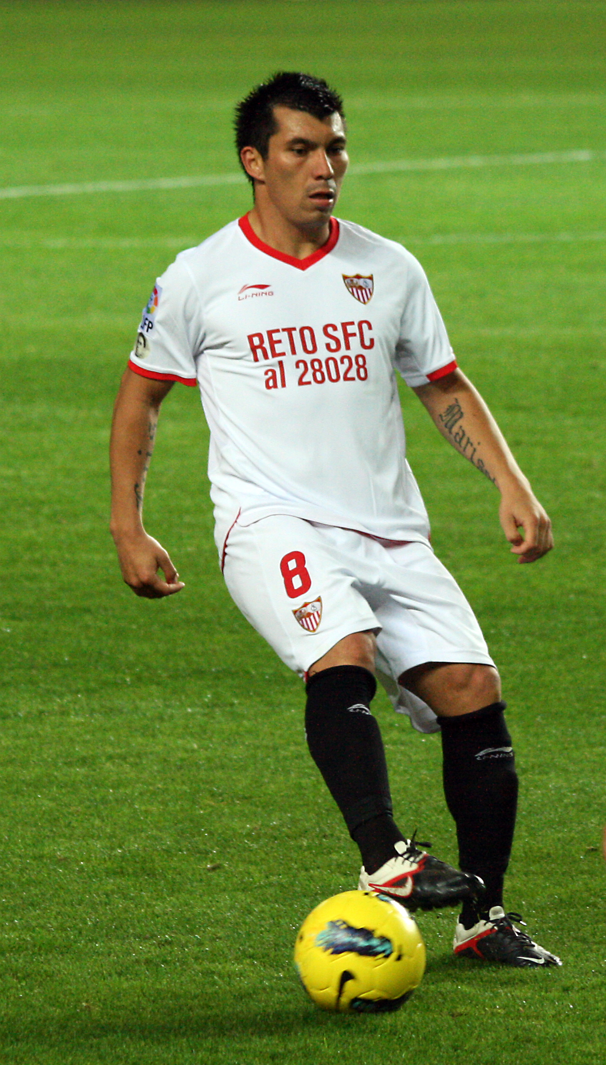 Gary Medel, chilean footballer who plays for Sevilla Fútbol Club (Spain)